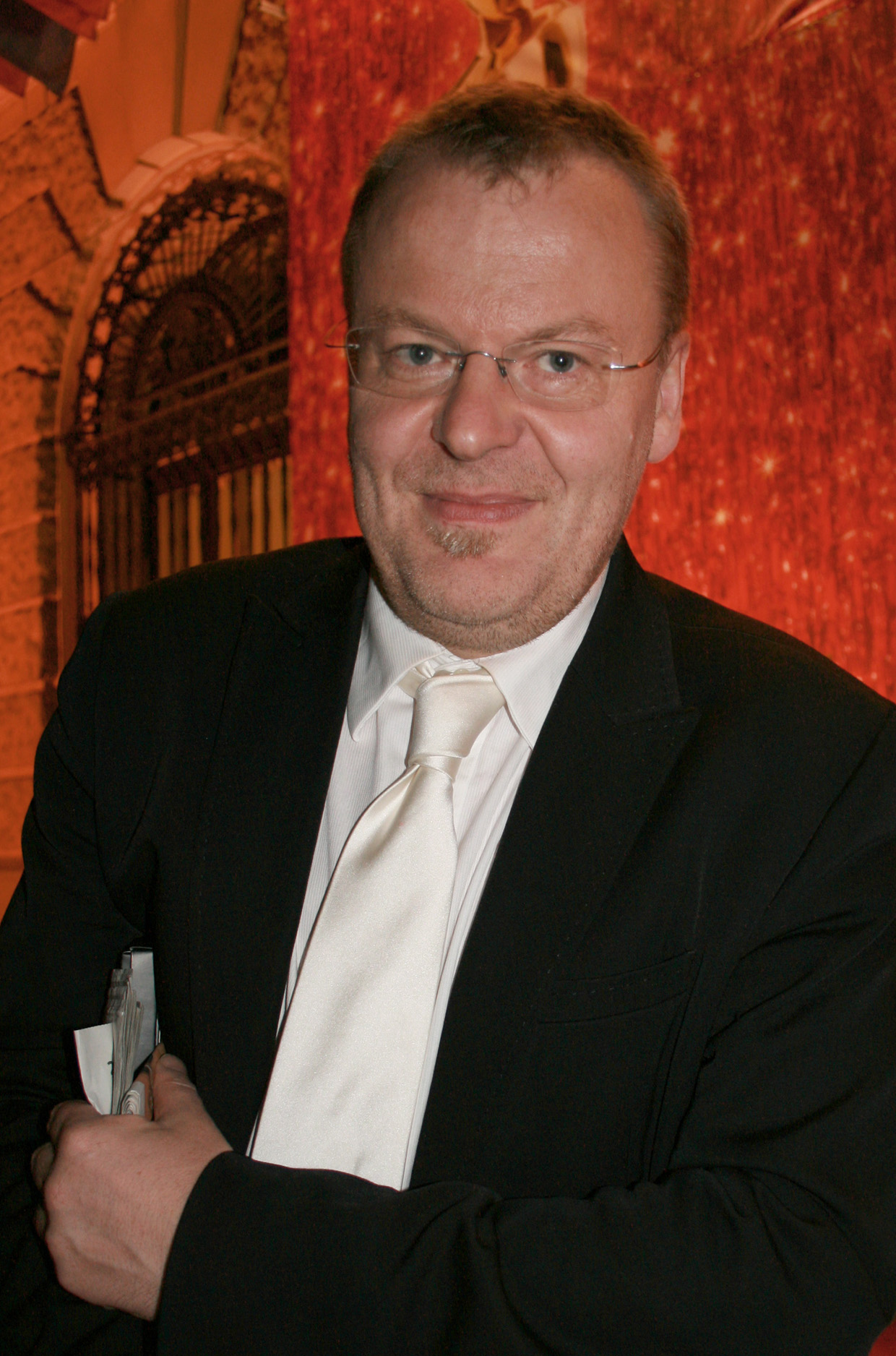 Fim director Stefan Ruzowitzky at the Romy TV awards (Hofburg Imperial Palace in Vienna)